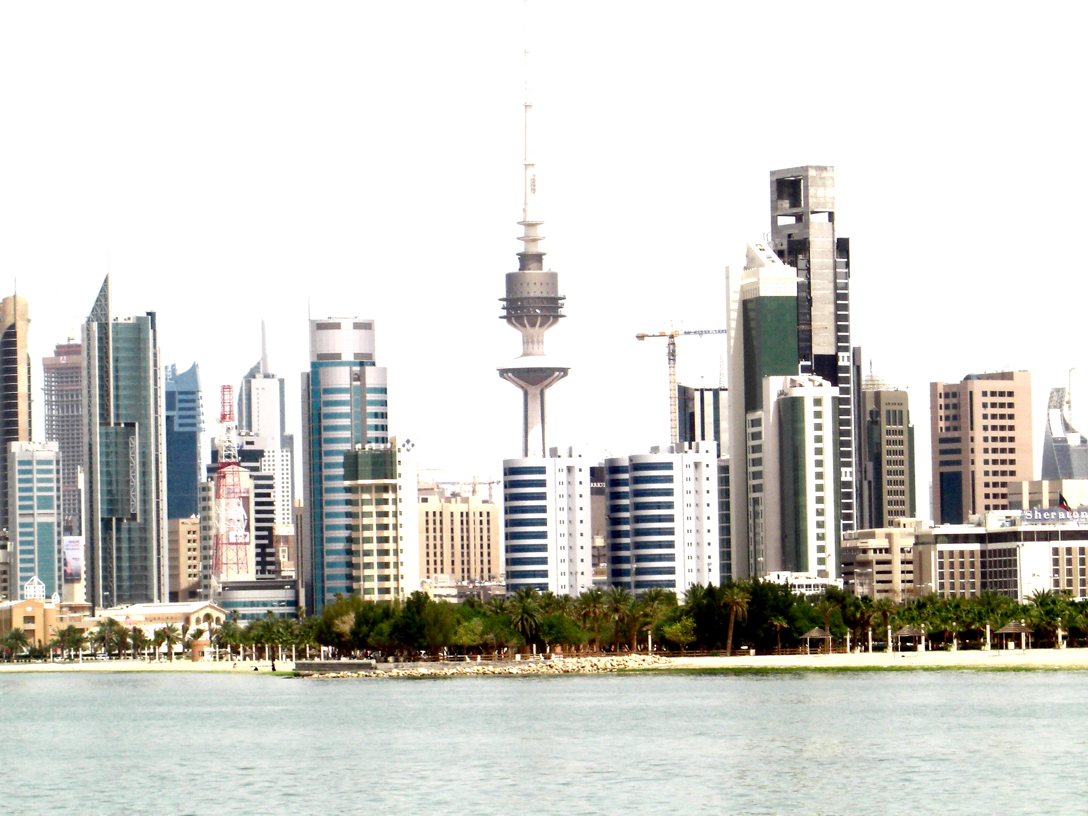 Kuwait City